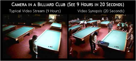 Before and after still images of Video Synopsis technology. LEFT: 9 hours of activity. RIGHT: 9 hours of activity summarized in a presentation of multiple objects and activities that occurred at different times